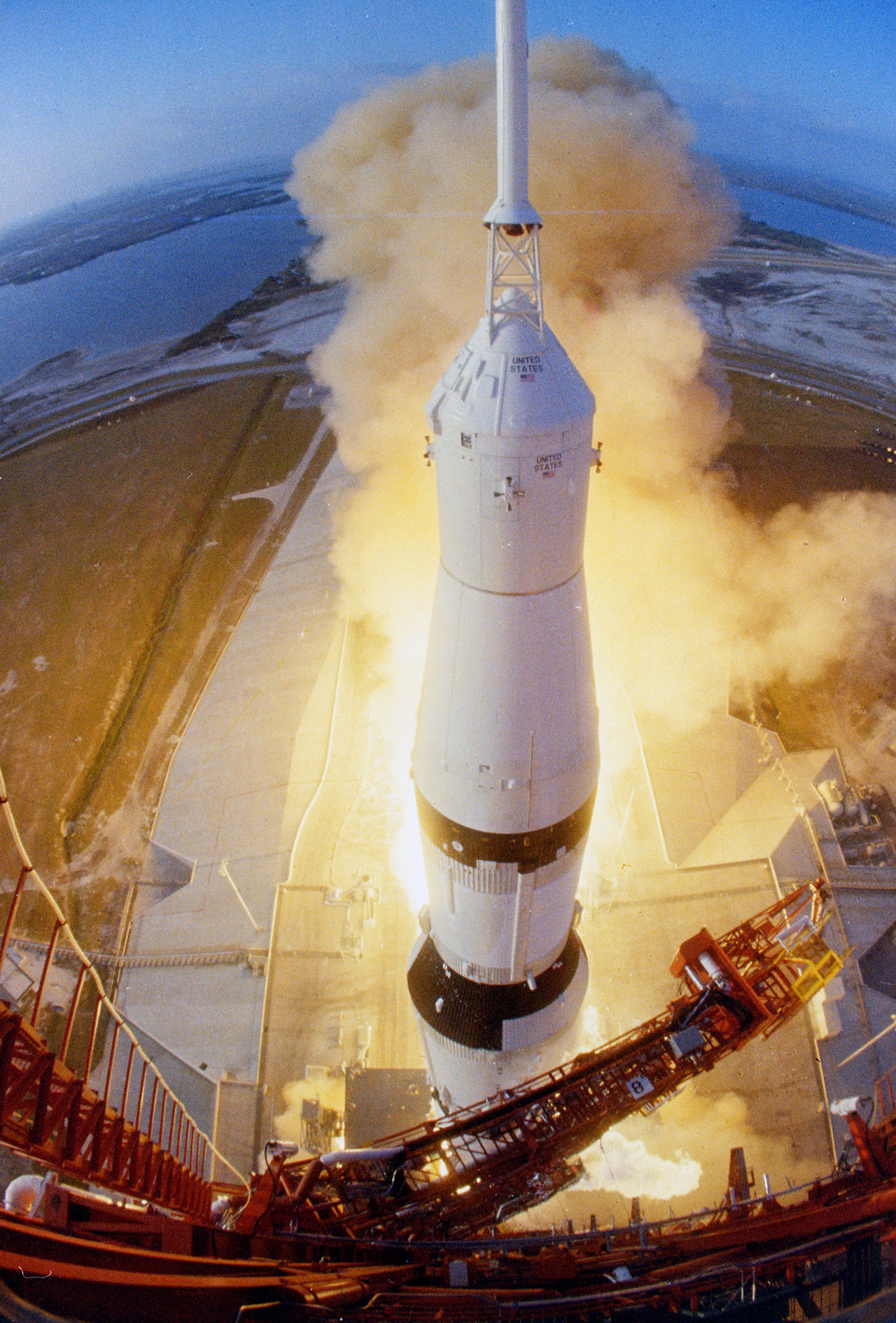 Apollo 6 launch as seen from a launch tower camera.